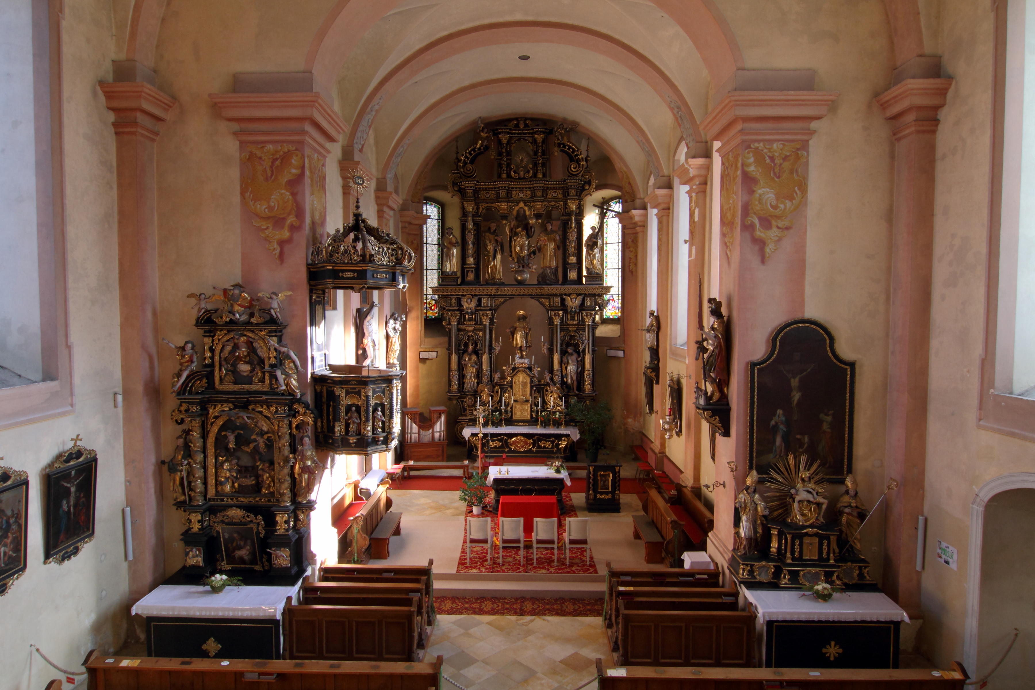 Saint James the Greater church in Grünau im Almtal from inside.